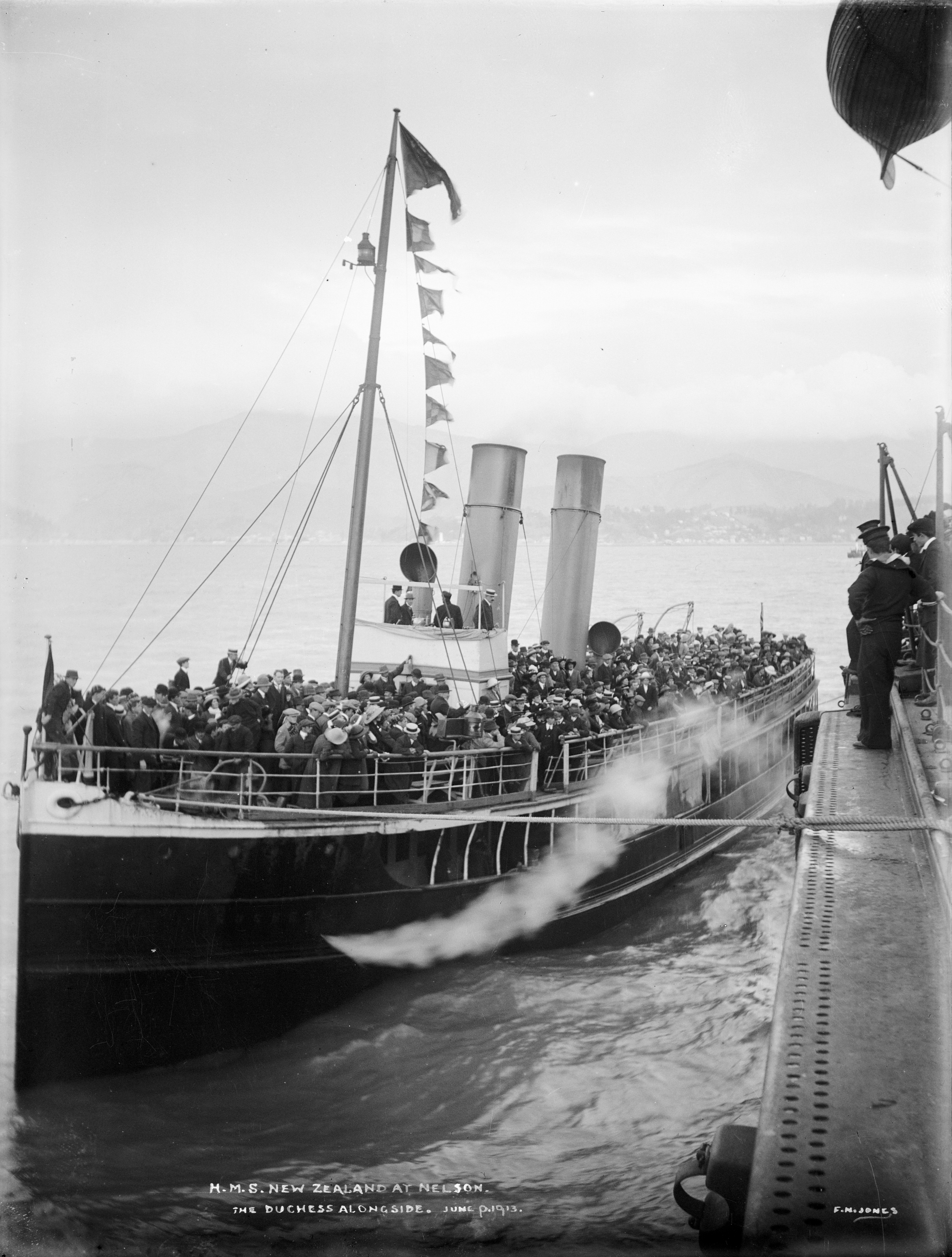 The ferry Duchess, alongside the H.M.S. New Zealand, Nelson, June 1913. Photograph taken by Frederick Nelson Jones. Note on back of file print reads "Duchess with visitors to H.M.S. New Zealand"